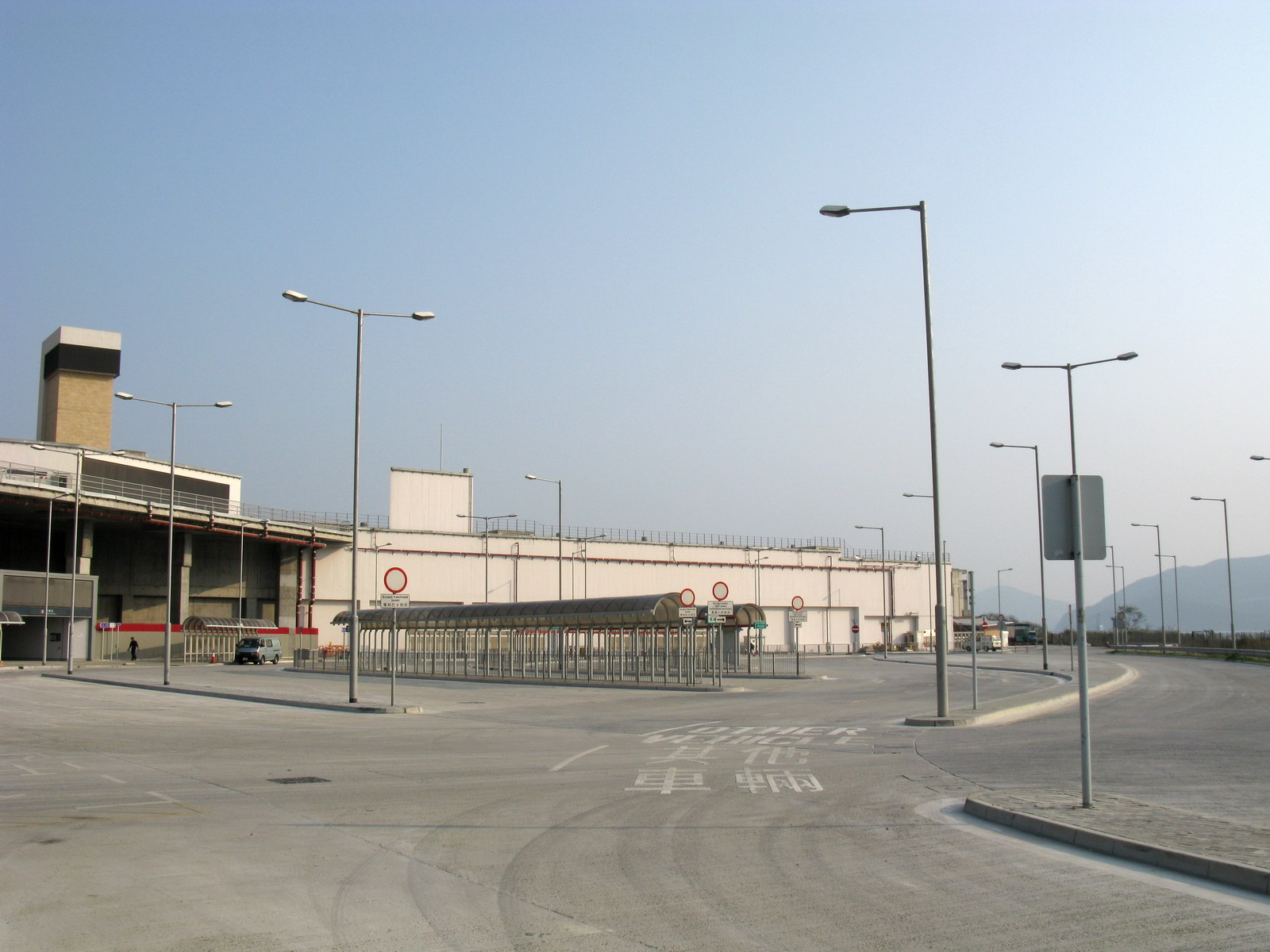 LOHAS Park Station Public Transport Interchange